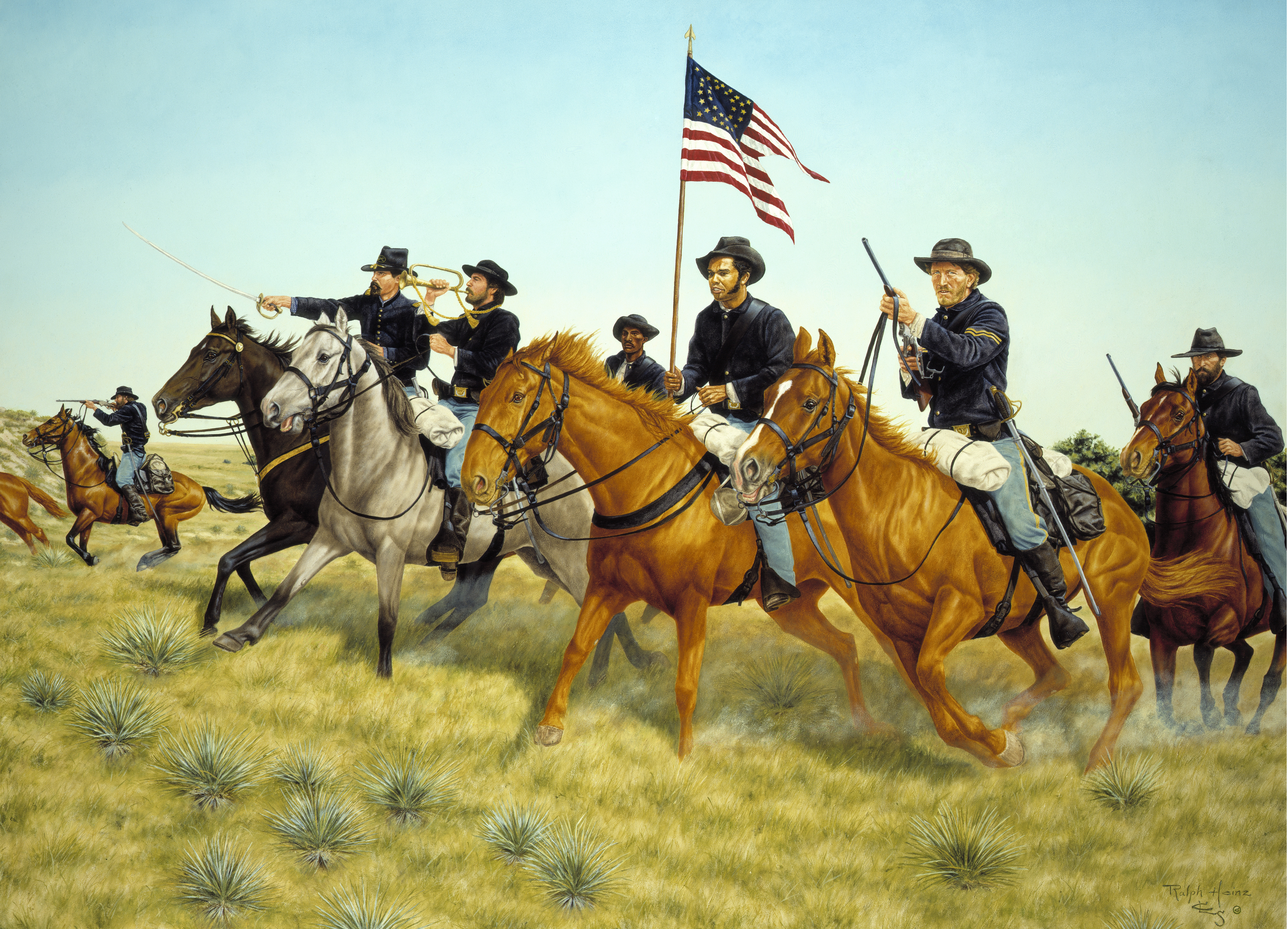 Western Kansas, August 21, 1867. After the Civil War, settlers rushed to the rich and relatively empty lands of the Great Plains. By mid-1867 the Plains Indian tribes, recognizing the threat to their traditional way of life, were regularly attacking settlers, railroad workers and travelers. When the angry and frightened citizens of Kansas demanded military help, the War Department authorized placing volunteer militia units on active duty during the emergency. On July 15, 1867, four companies of the 18th Kansas Volunteer Cavalry were mustered into Federal service. Under command of Captain Horace L. Moore, the 18th set out immediately for a month of vigorous campaigning. Returning to camp at Ft. Hayes, then in the midst of a cholera epidemic, the Kansans then joined forces with the 10th U.S. Cavalry, the famous black "Buffalo Soldiers." A combined force of 135 men, commanded by Captain George A. Armes of the 10th, rode down the Saline River; Captain Moore, with 125 Kansans, scouted upstream. The two groups had lost contact with each other when Captain Armes' group was struck by 300 to 400 Kiowas and Cheyennes under the great war chiefs Satanta and Roman Nose. As Armes' group of men held their ground through fierce fighting, the men of the 18th Kansas, hearing the noise of battle, managed to fight their way through to Armes. To break the stalemate, Captain Armes formed a party for a charge on the Indians. Led by Armes, the force of about 20 black regulars and Kansas volunteers moved first toward Prairie Dog Creek, and then, turning, charged up the hill toward the main body of warriors. The Indians broke and scattered, ending the day's fighting. The cavalry had lost 3 men dead and 36 wounded; the Indians, 50 dead and 150 wounded. The Battle of Prairie Dog Creek ended the U.S. Army's offensive operations on the Kansas frontier for the year, and in the fall treaties were signed with the tribes of the Southern Plains. The proud tradition of the